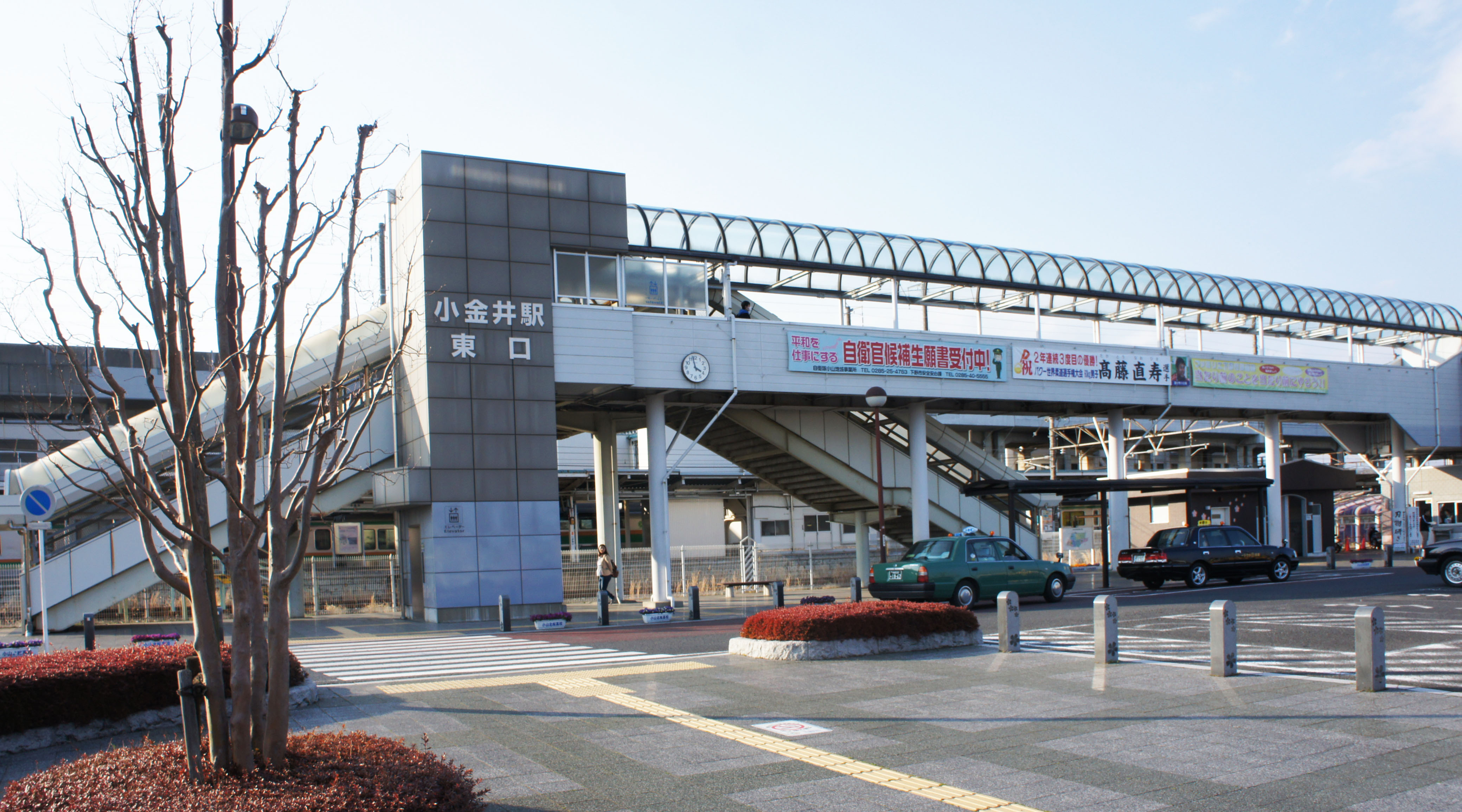 East Exit of JR Tohoku-Main-Line (Utsunomiya-Line) Koganei Station Sony NEX-3